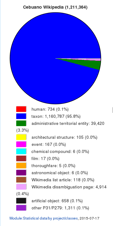 Wikidata Statistics of Cebuano Wikipedia Type of content ( , data) Content of pages (except tagged template, category and module) by class. Cebuano Wikipedia (1,211,364) as of 2015-07-17 human taxon administrative territorial entity architectural structure event chemical compound porn film thoroughfare astronomical object Wikimedia list article Wikimedia disambiguation page artificial object other P31/P279 no P31/P279 Technical notes: assumes these classes are disjoint (actually not), and that a single item does not belong to two or more of them. Therefore, the relative sizes of classes are somewhat accurate, but the number of items with other P31/P279 is lower then the correct number. items considered = items with sitelink - instances of category - instances of templates - instances of modules. other possible classes: organization (Q43229) may be interesting but may overelap architectural structure (for instance, a museum is often marked as both). geographic location (Q2221906) needs review as it currently includes music album. the number of items in class artificial object (Q16686448) are excluding items in other classes. This includes human settlements, albums, singles, books, paintings, scientific journals, songs, video games, television programs, etc. the number of items in class architectural structure (Q811979) are excluding items in class administrative territorial entity (Q56061). As of 2015-07-18 there're 919,394 items in both classes, most of which are villages.